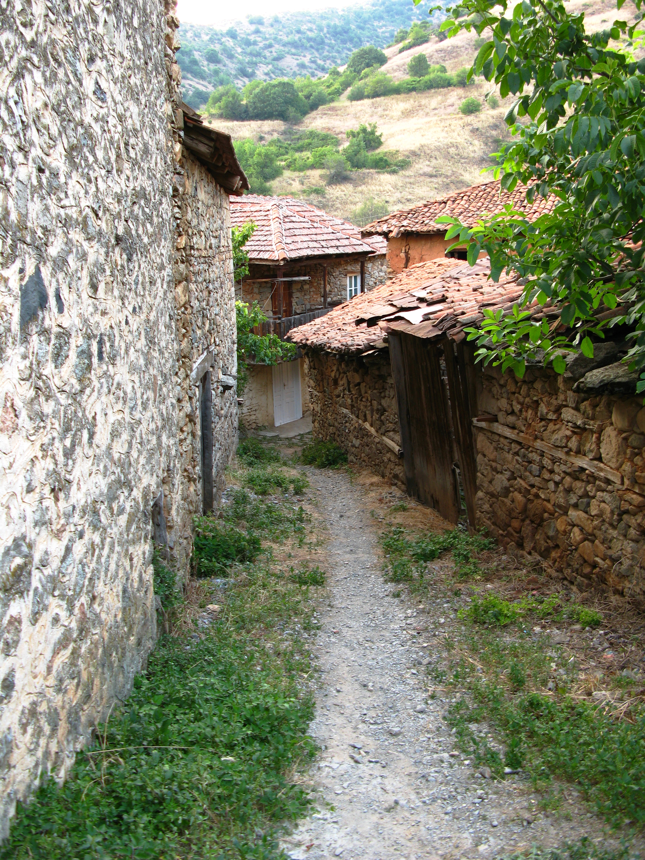 Villga eBrajčino, Macedonia.